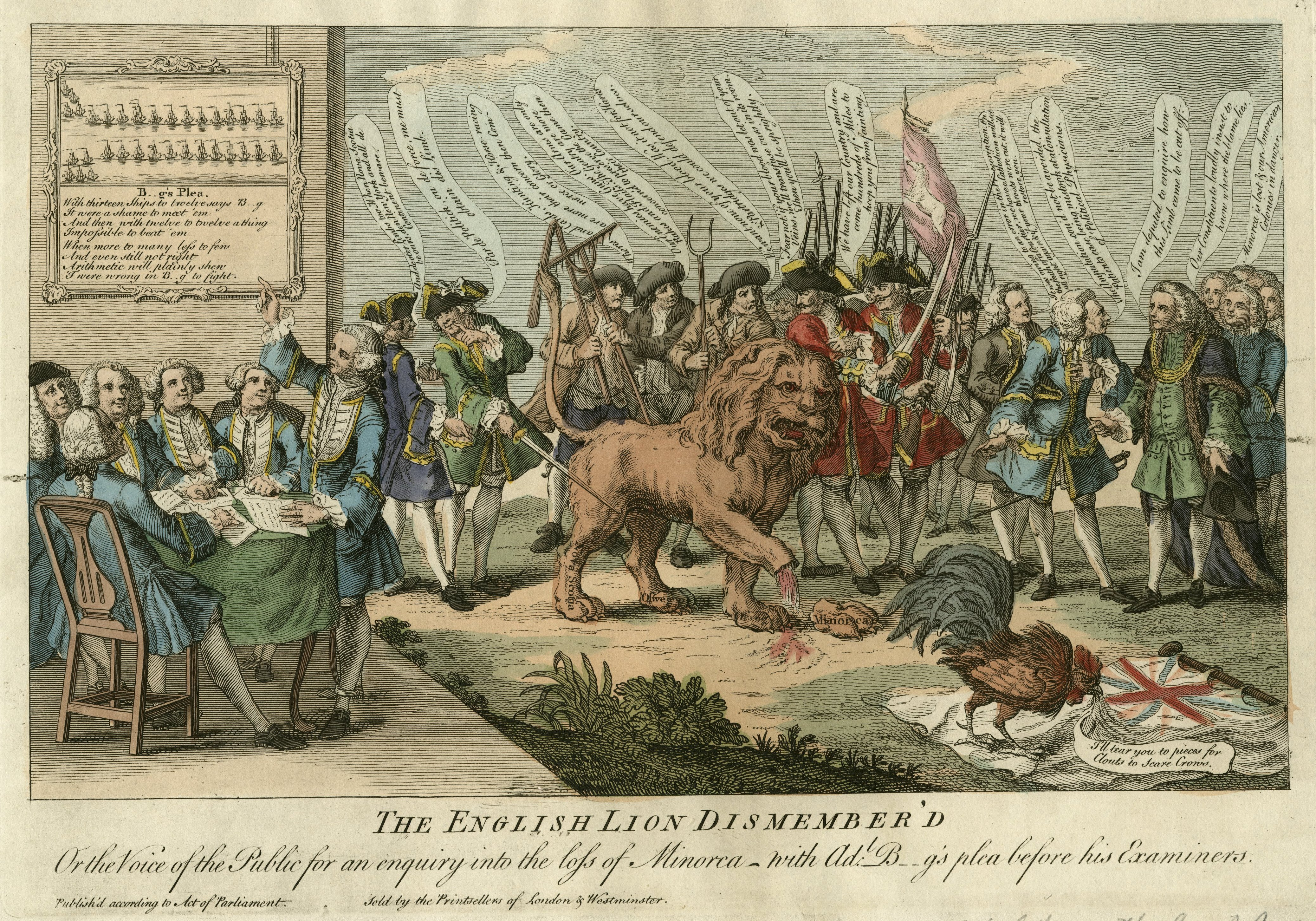 The English Lion dismembered. Cartoon English after the defeat of the Royal Navy at Menorca.